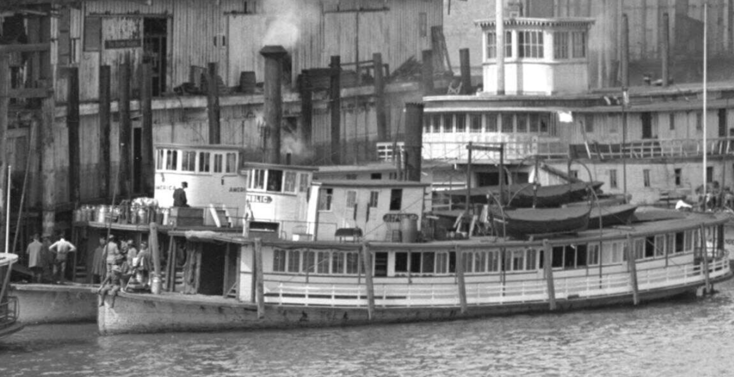 Steamboats America (on left) and Republic (on right) at dock in Portland, Oregon circa 1905. Unidentified larger steamer is on right behind both vessels.